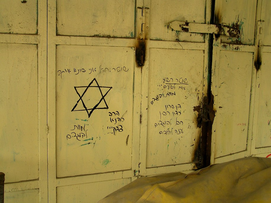 Hebron.